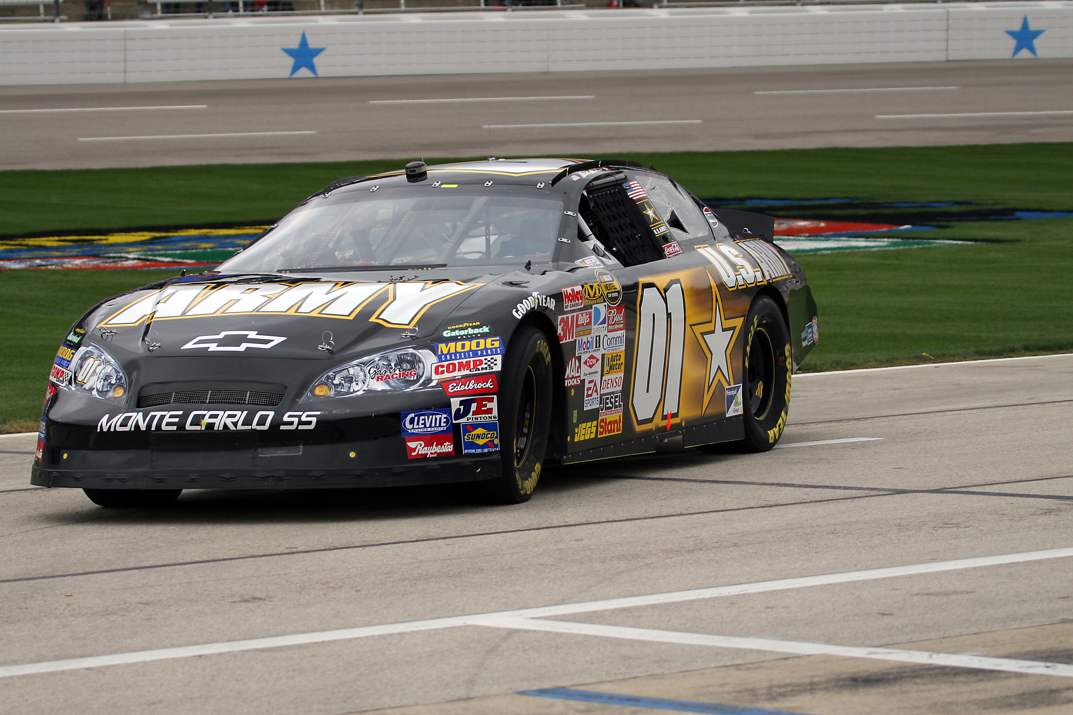 NASCAR driver Mark Martin (NASCAR) pulls into the pits at Texas in 2007Mark Martin